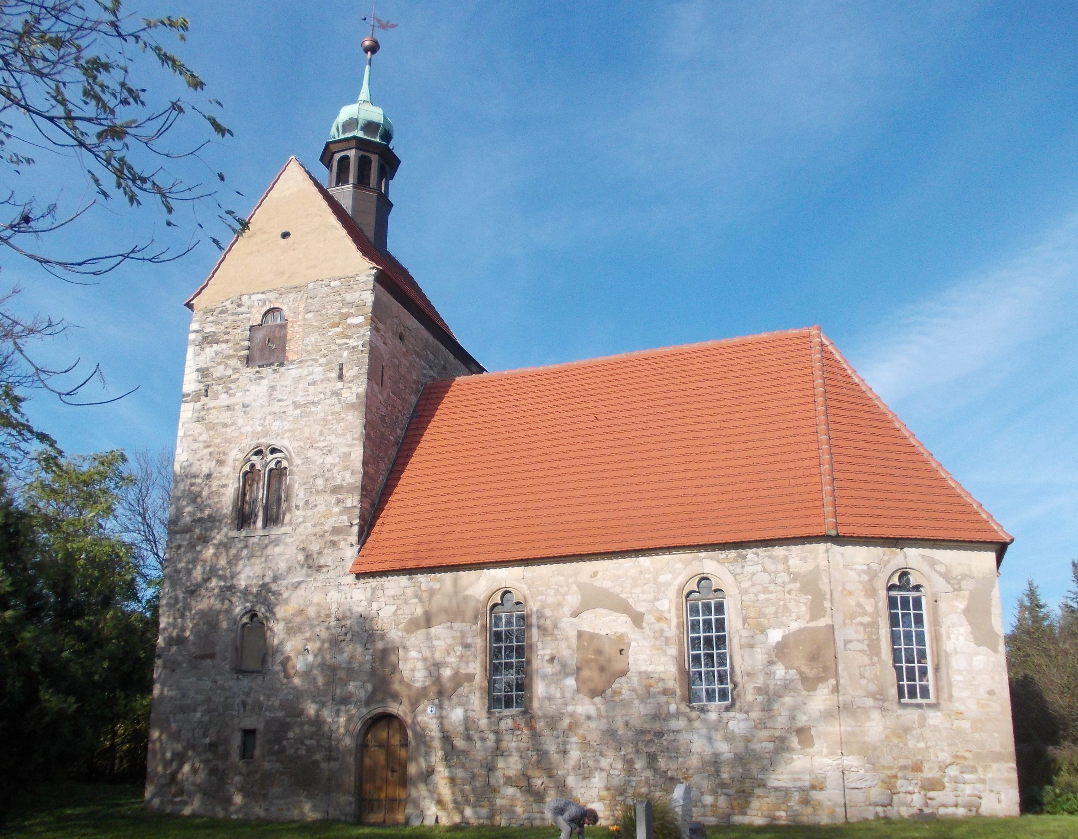 St. Mary's Church in Gorsleben (Salzatal, district: Saalekreis, Saxony-Anhalt)